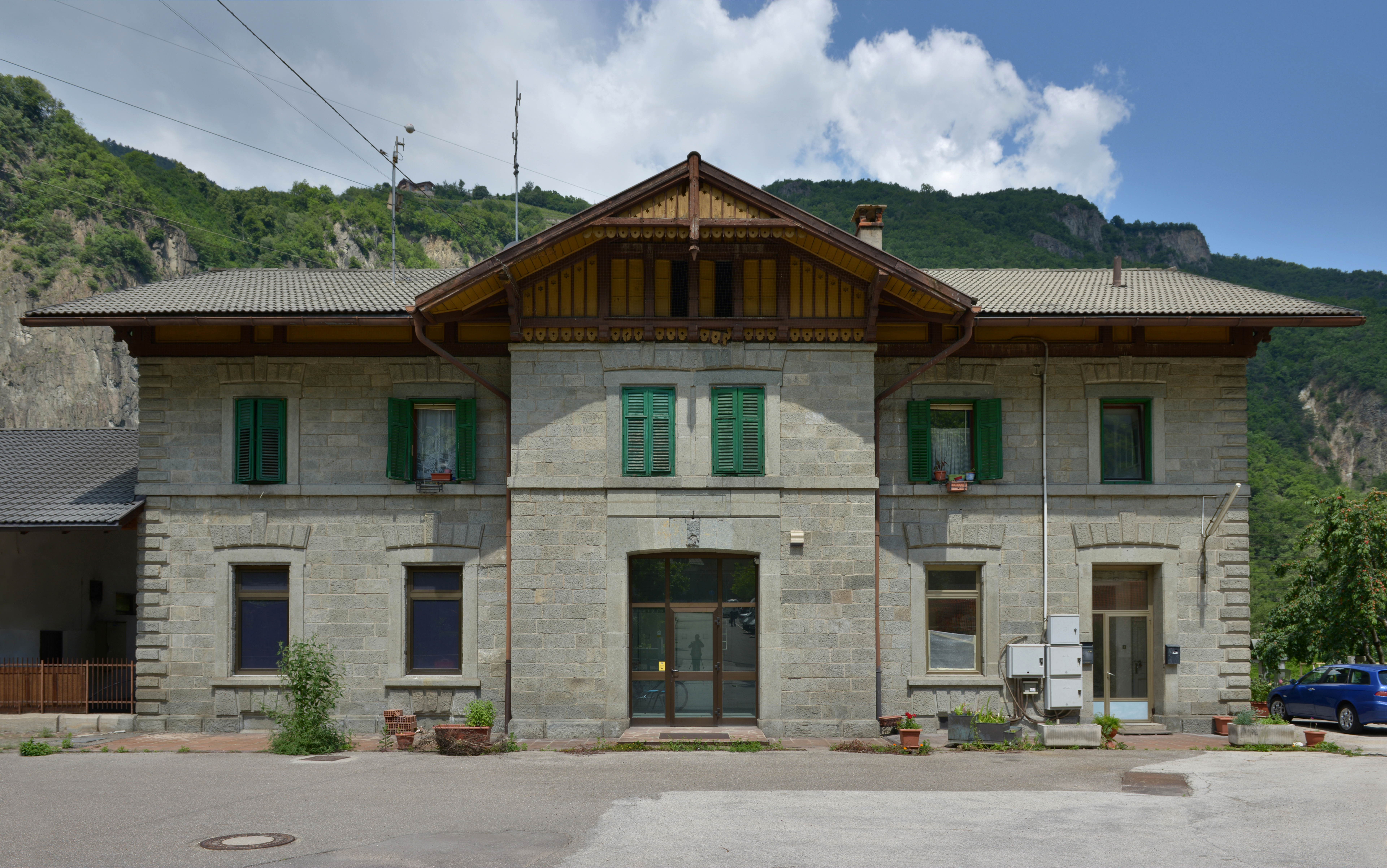 Railway Station in Blumau, South Tyrol